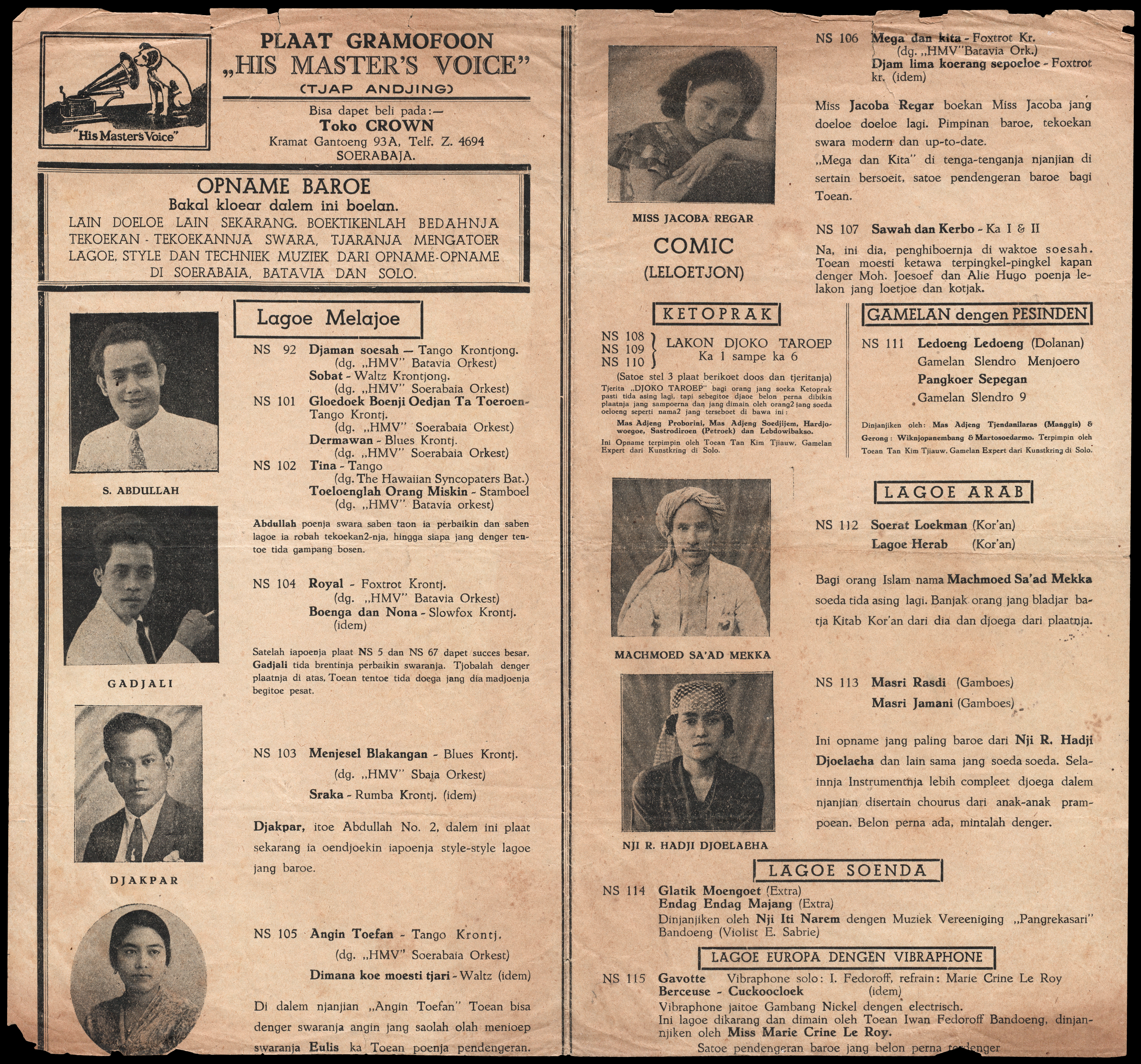 His Master's Voice Advertisement, Surabaya (c 1930s). It lists a number of recent releases in various genres, including kroncong, Sundanese, and Quranic recitation